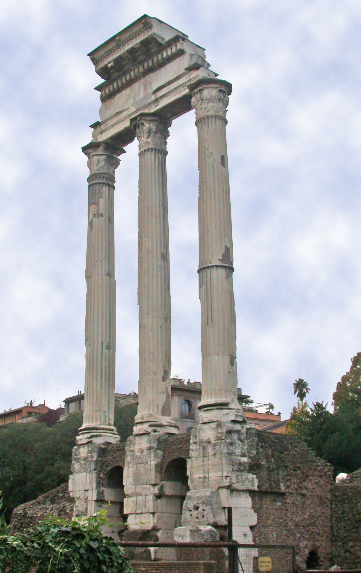 Rome, Roman Forum, Temple of Dioscuri (Temple of Castori). Personal photo (november 2005) by MM in it.wiki